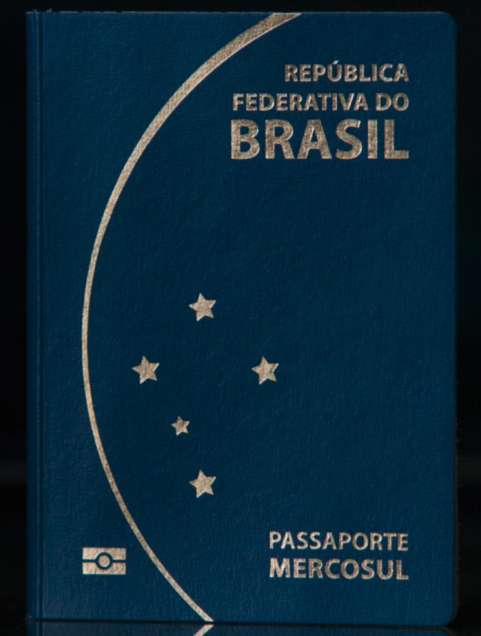 new Brazilian passport